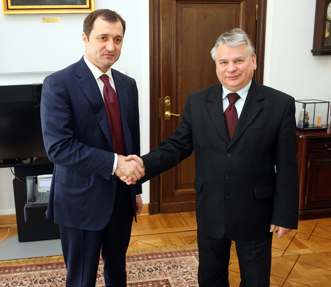 Prime Minister of Moldova Vlad Filat and Marshal Bogdan Borusewicz in the Polish Senate